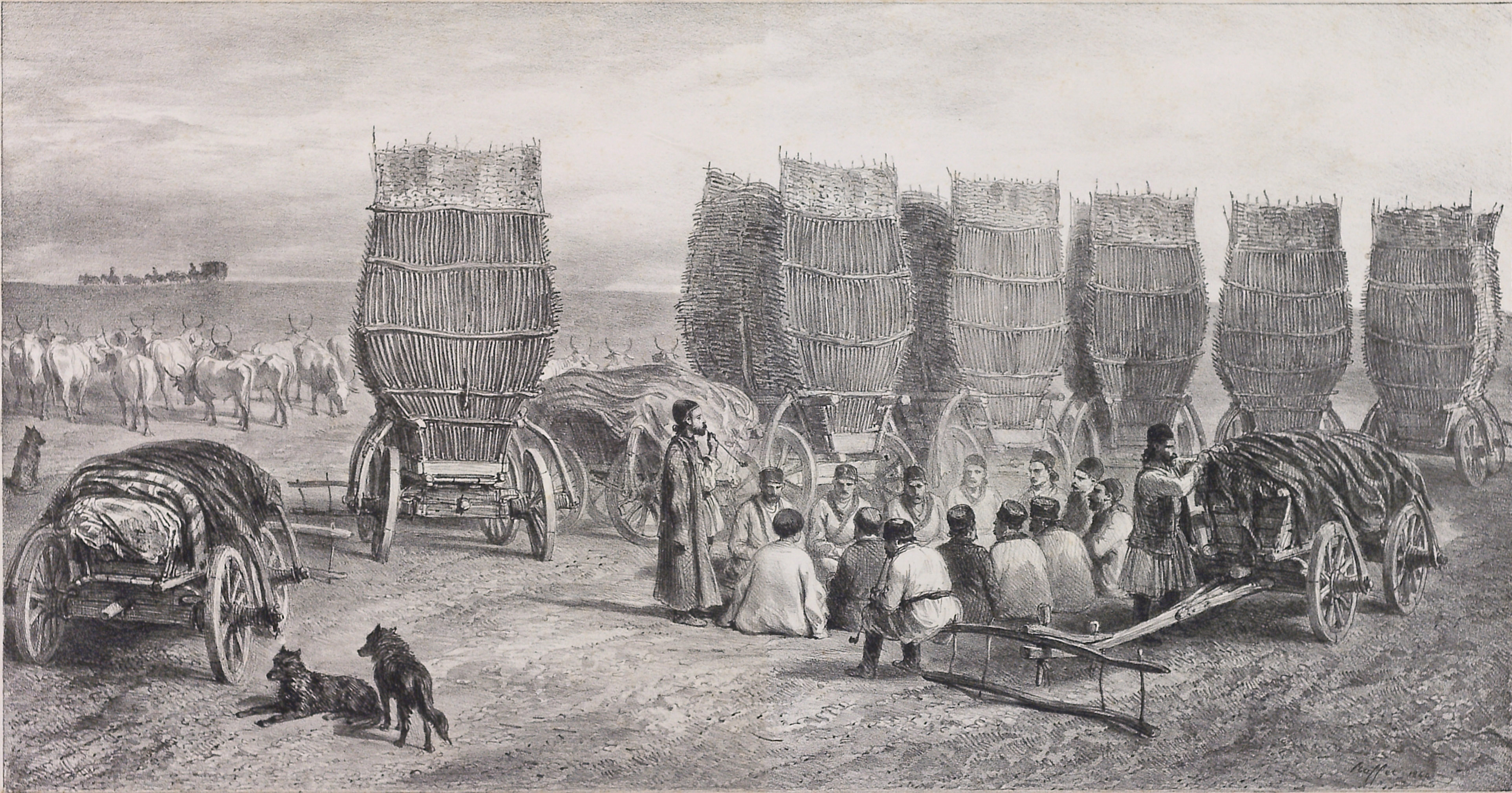 The step of the Moldavian coalmen, Bessarabia 1840 by Auguste Raffet - died 1860